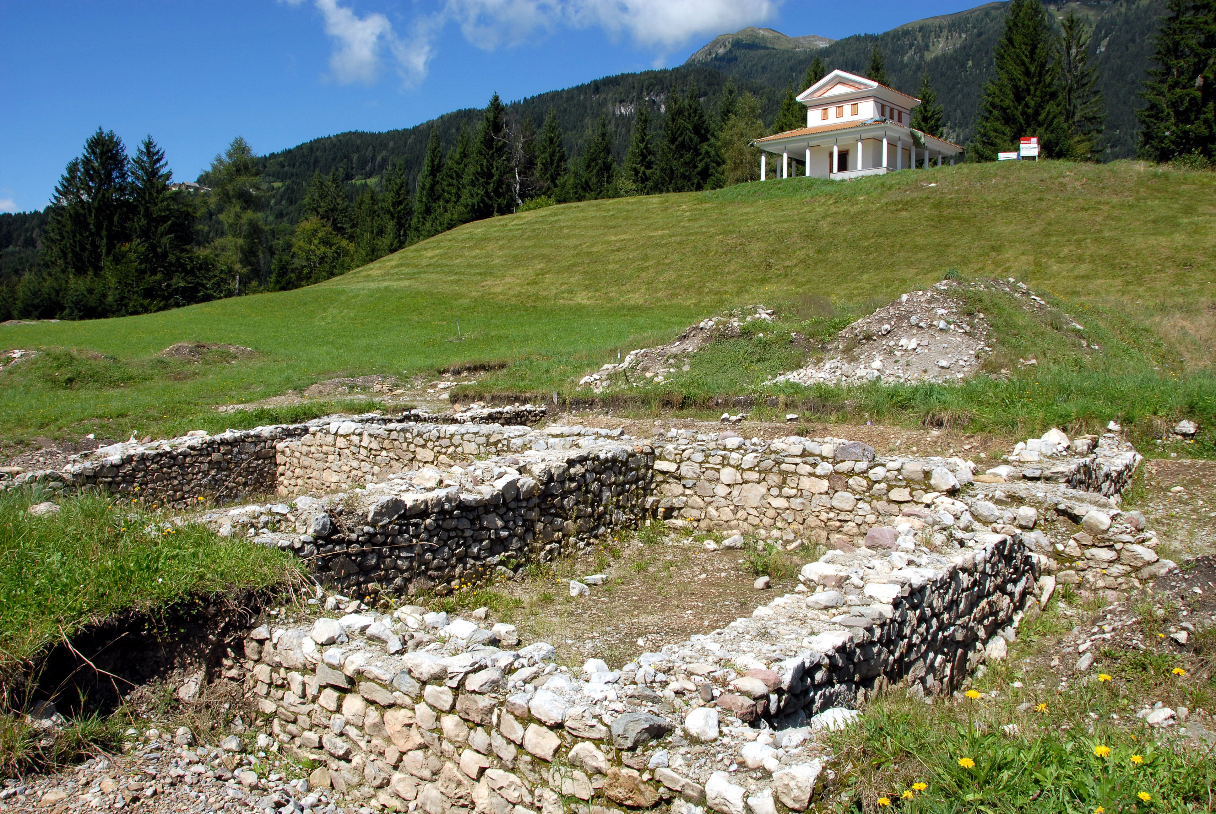 Excavated buildings` base walls and the reconstructed temple "Herkulaneum" in the background on the hill at the archaeological site Gurina in the community Dellach (Gailtal), district Hermagor, Carinthia, Austria, EU